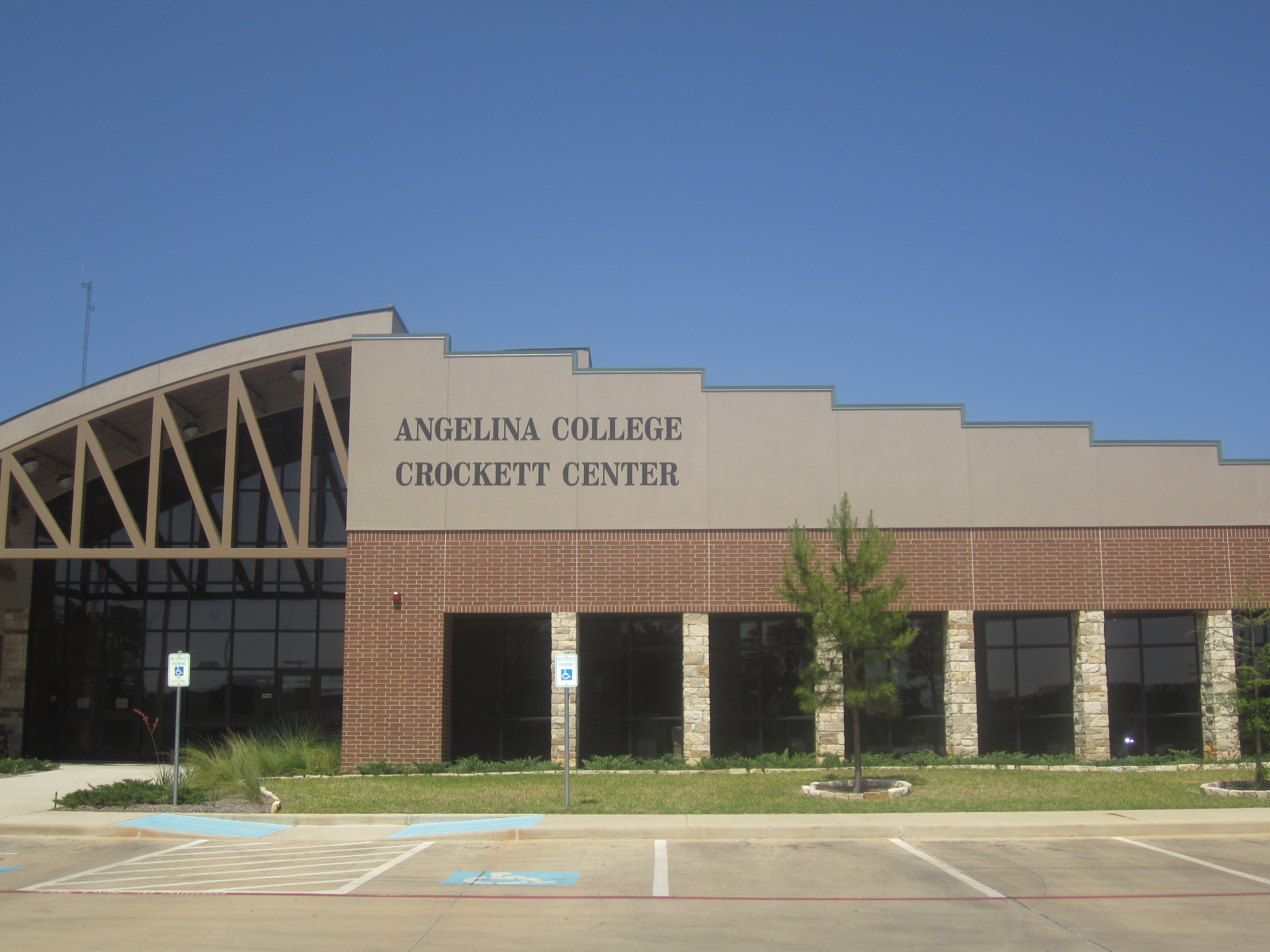 I took photo on June 1, 2012, in Crockett, TX, with Canon camera.Billy Hathorn (talk) 02:51, 29 June 2012 (UTC)